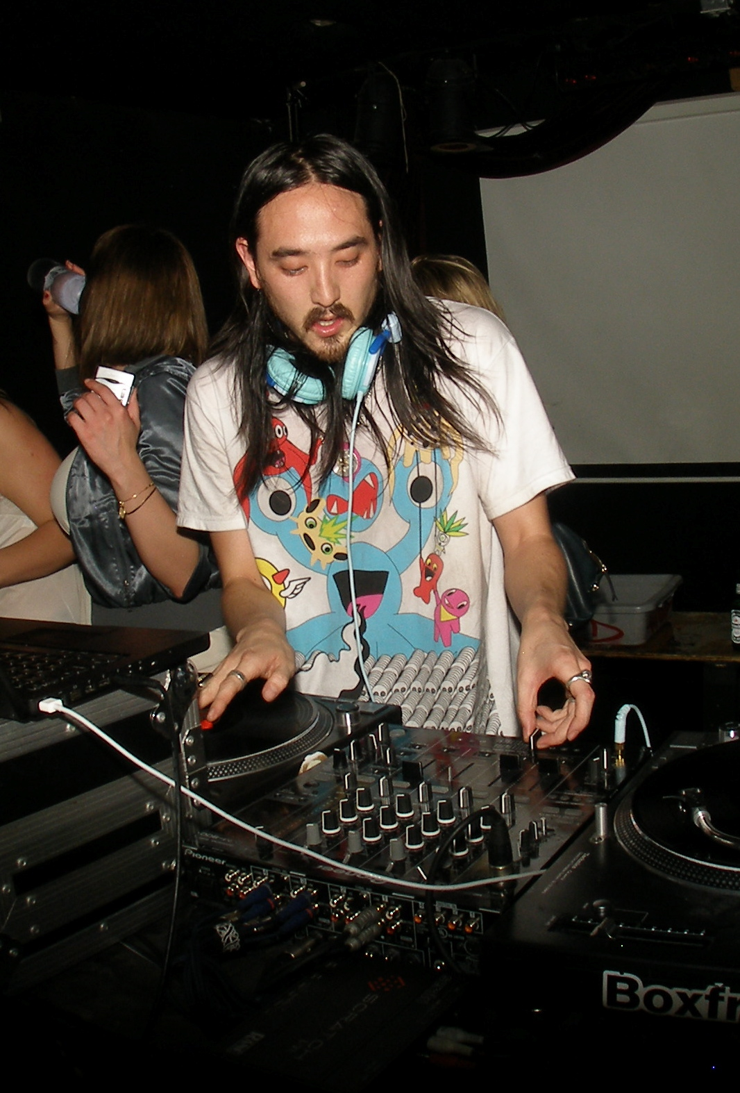 Steve Aoki playing a set at the HiFi Nightclub in Calgary, Alberta, Canada.